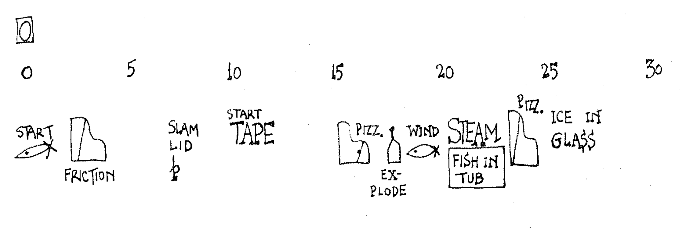 A section of Water Walk by John Cage